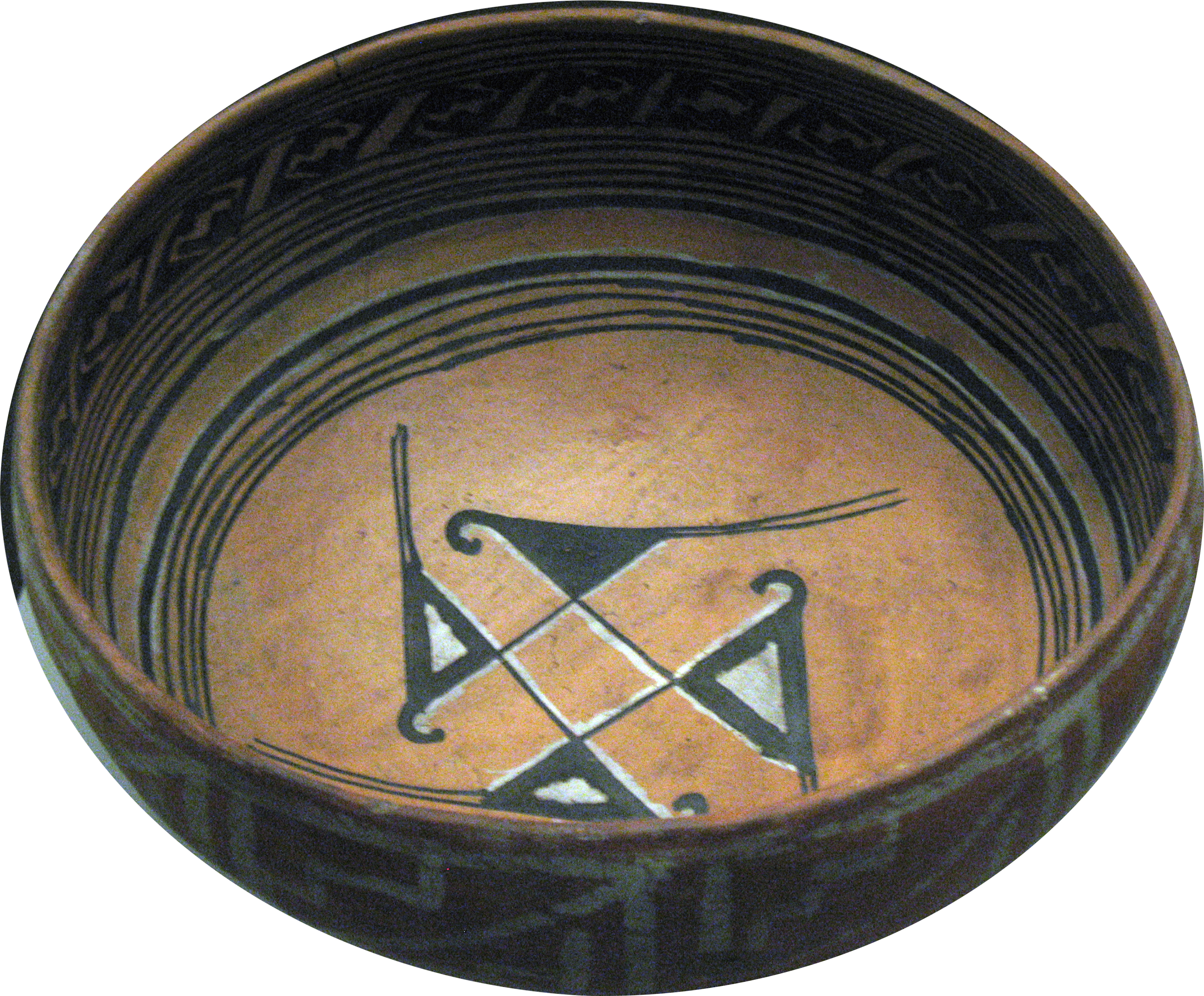 Ancestral Hopi bowl; clay, paint — Homol´ovi, Arizona; 1300s CE. National Museum of the American Indian, New York.